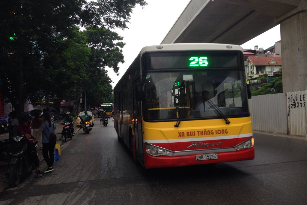 Shot at Hồ Tùng Mậu